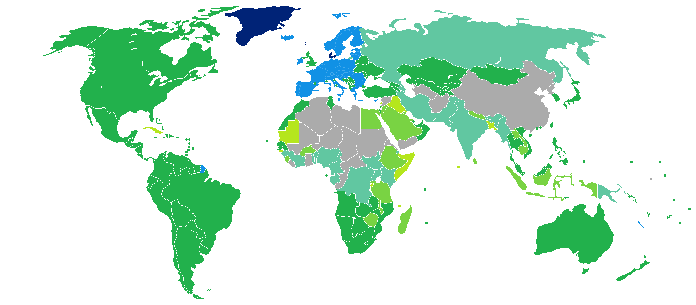 Visa free and visa-on-arrival countries for Danish citizens Kingdom of Denmark Freedom of movement Visa not required Visa on arrival eVisa Visa available both on arrival or online Visa required prior to arrival